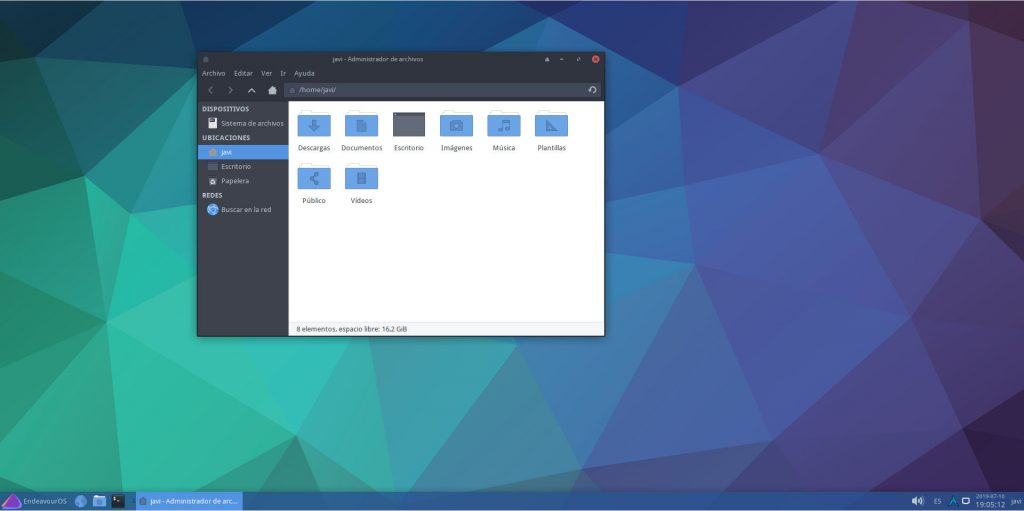 Screenshot of Endeavour OS